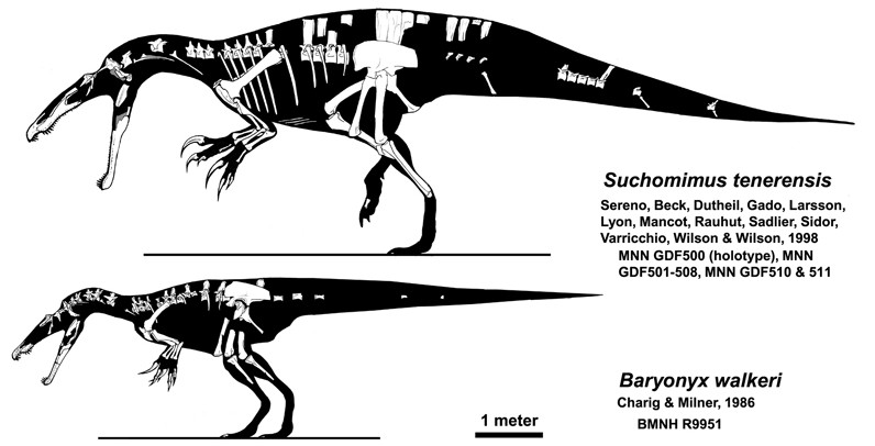 Skeletal reconstruction of Suchomimus tenerensis and Baryonyx walkeri to scale.